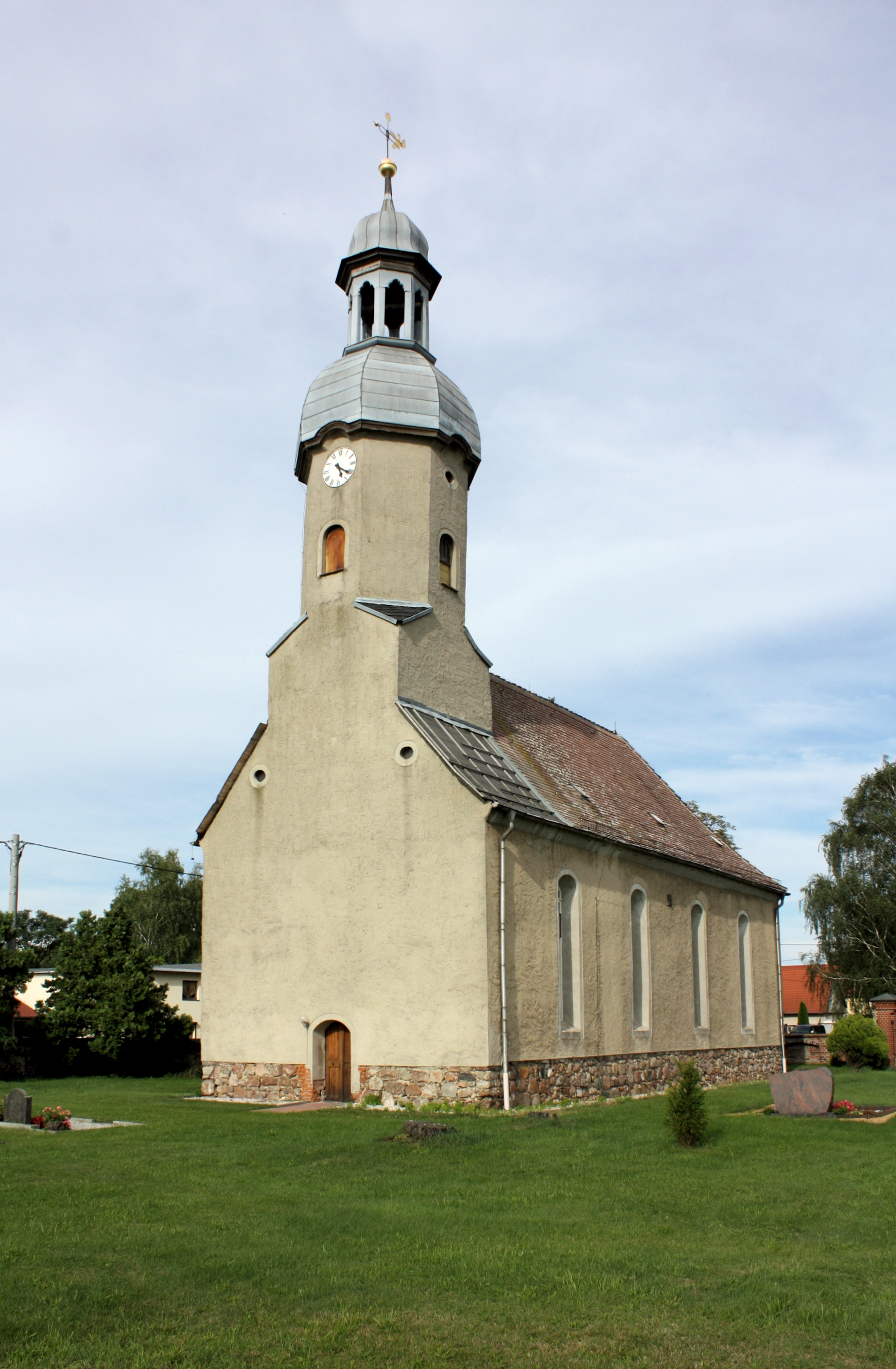 Church Spröda 2014